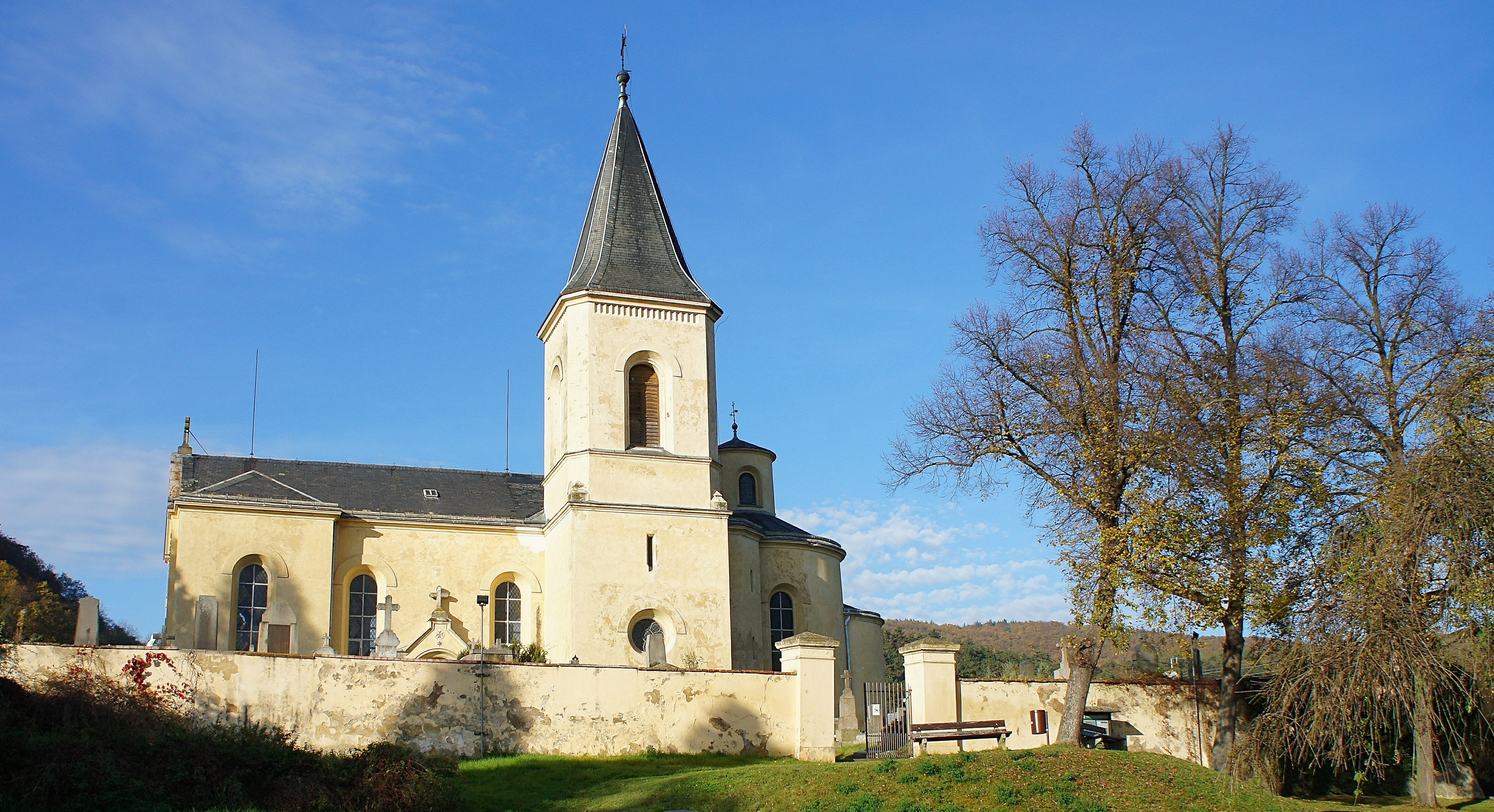 The Saint Martin and Saint Procopius Church in Karlík (Central Bohemian Region, Czechia).